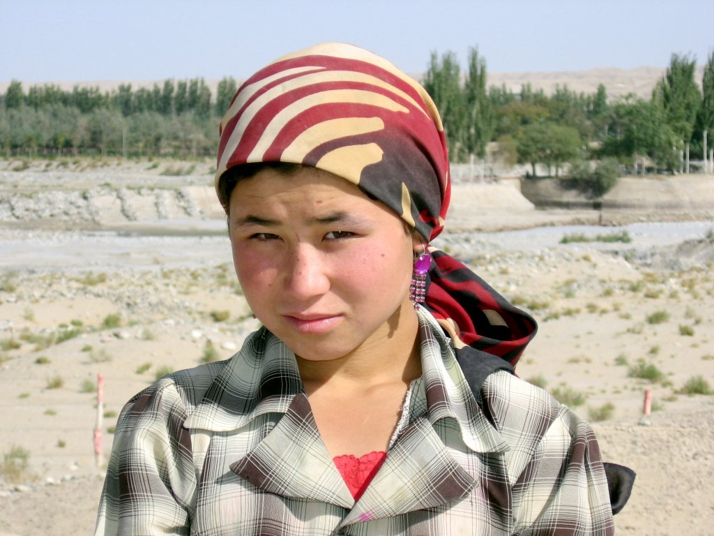 Khotan (Hotan / Hetian) is an oasis city in the Xinjiang Uygur Autonomous Region of the People's Republic of China. Uyghur people at Melikawat Ruins. Digital photo taken by author and post-processed with The GIMP.